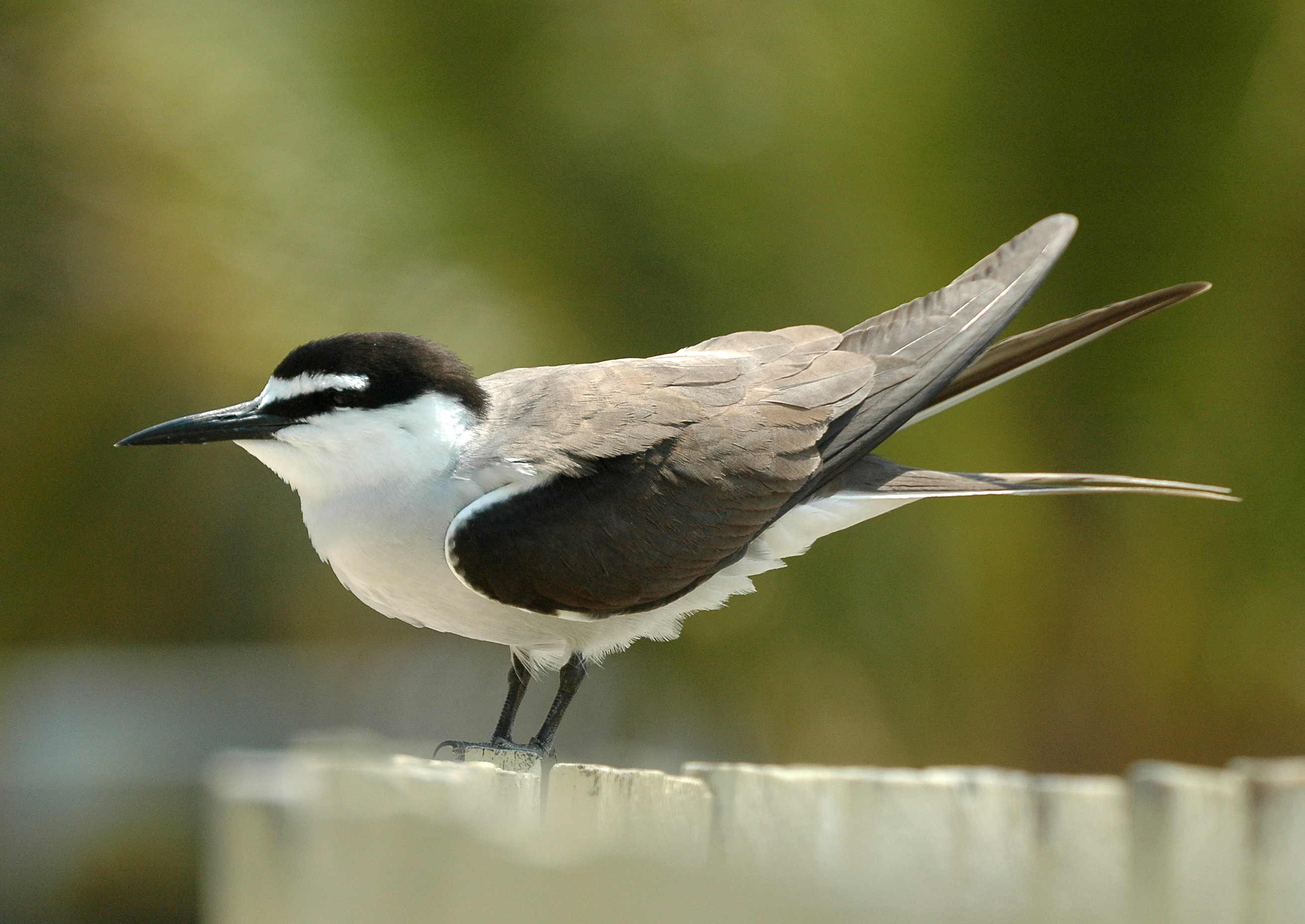 Bridled Tern Onychoprion anaethetus Lady Elliot Island, SE Queensland, Australia